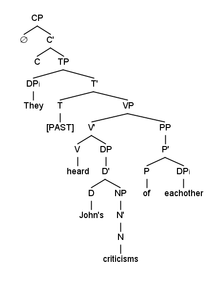 Syntactic tree showing binding theory principle A